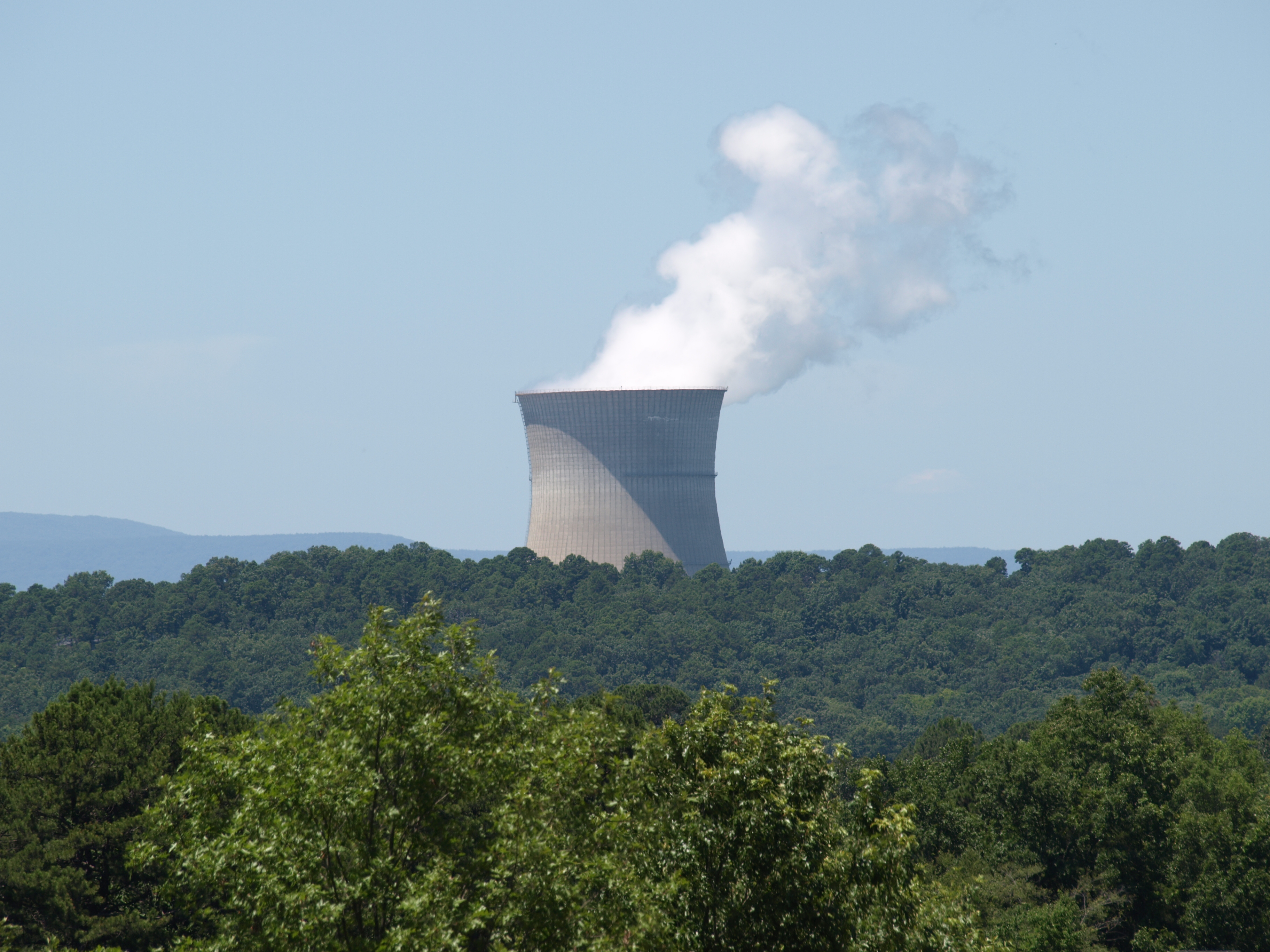 Arkansas Nuclear One From flickr: Nuclear power plant near Russellville, AR.